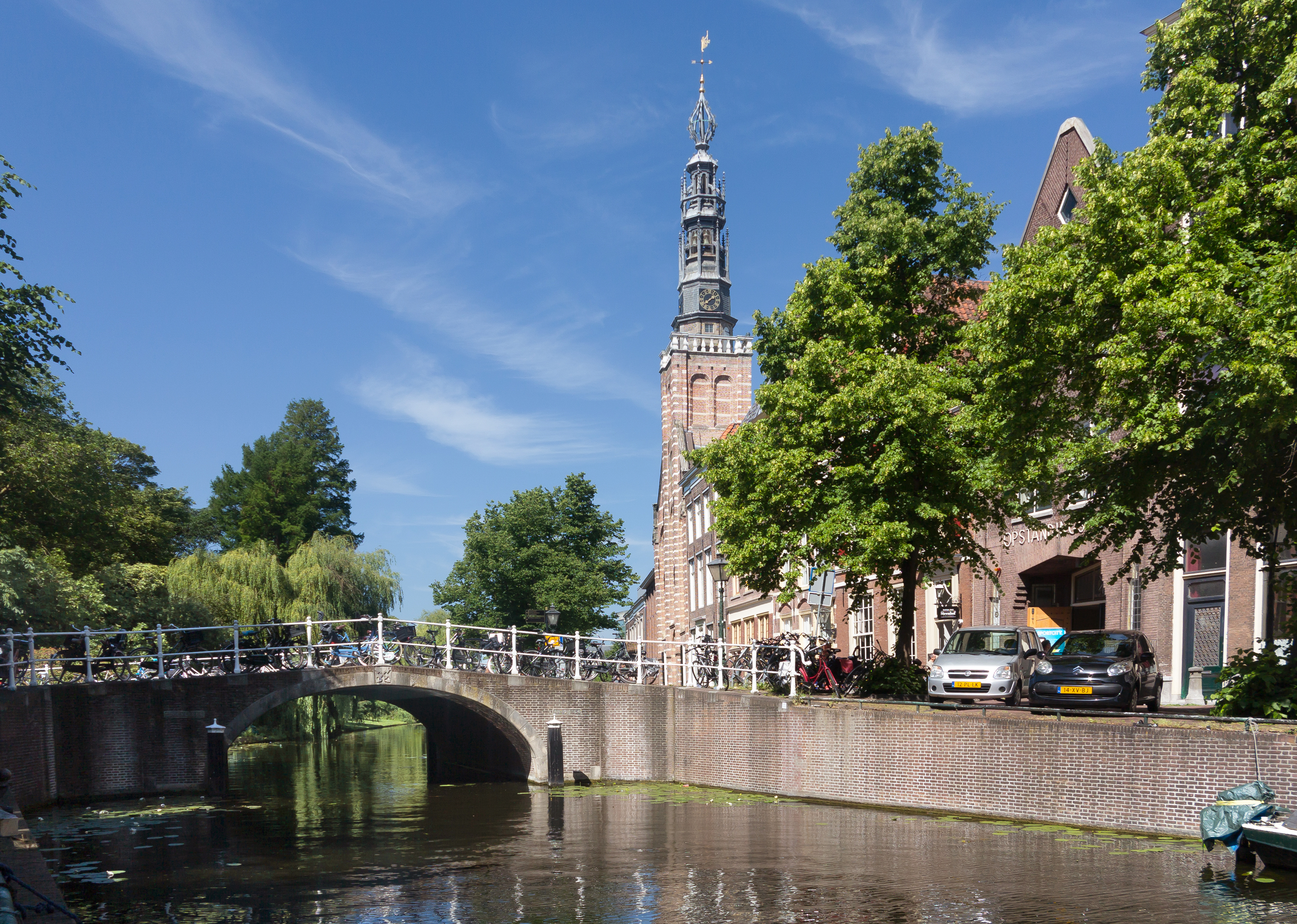 Leiden, church (de Sint Lodewijkskerk) and bridge (de Groenebrug)